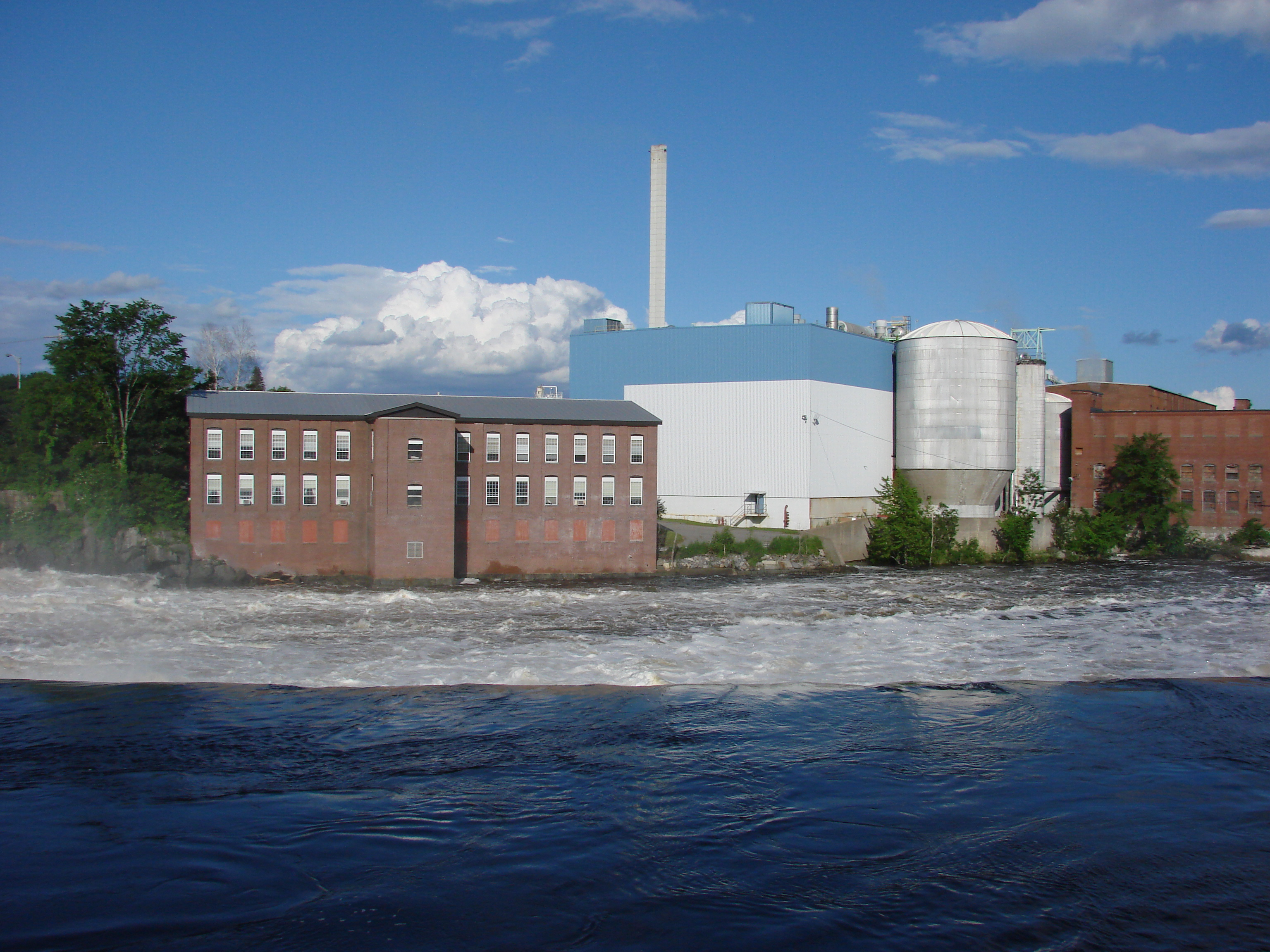 Author: self Source : self Creative Commons Attribution-Sharealike 3.0 Unported License (CC-BY-SA) and the GNU Free Documentation License